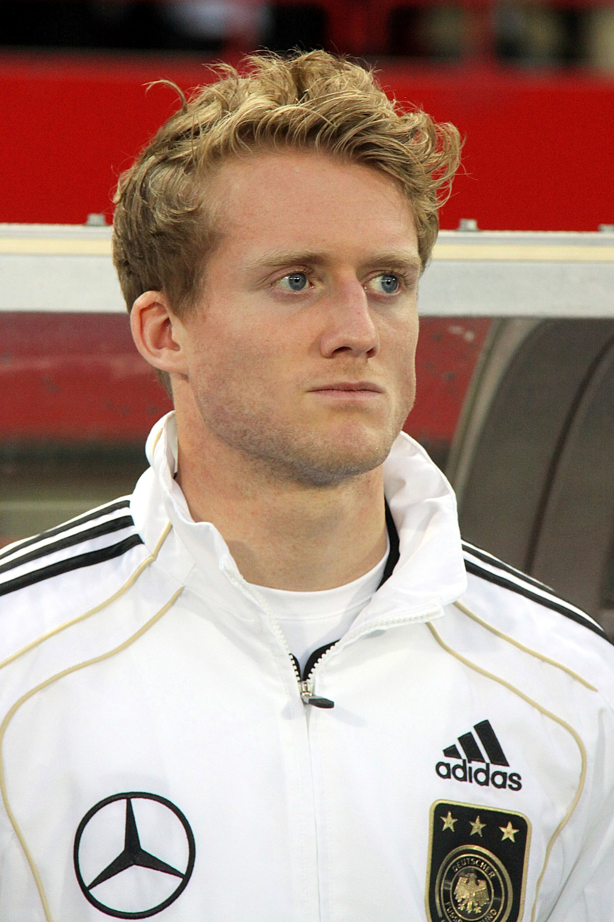 André Schürrle (Mainz 05), german national football team